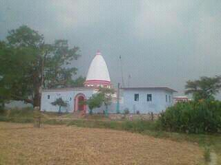 This Image is Prashastdih Siva Temple